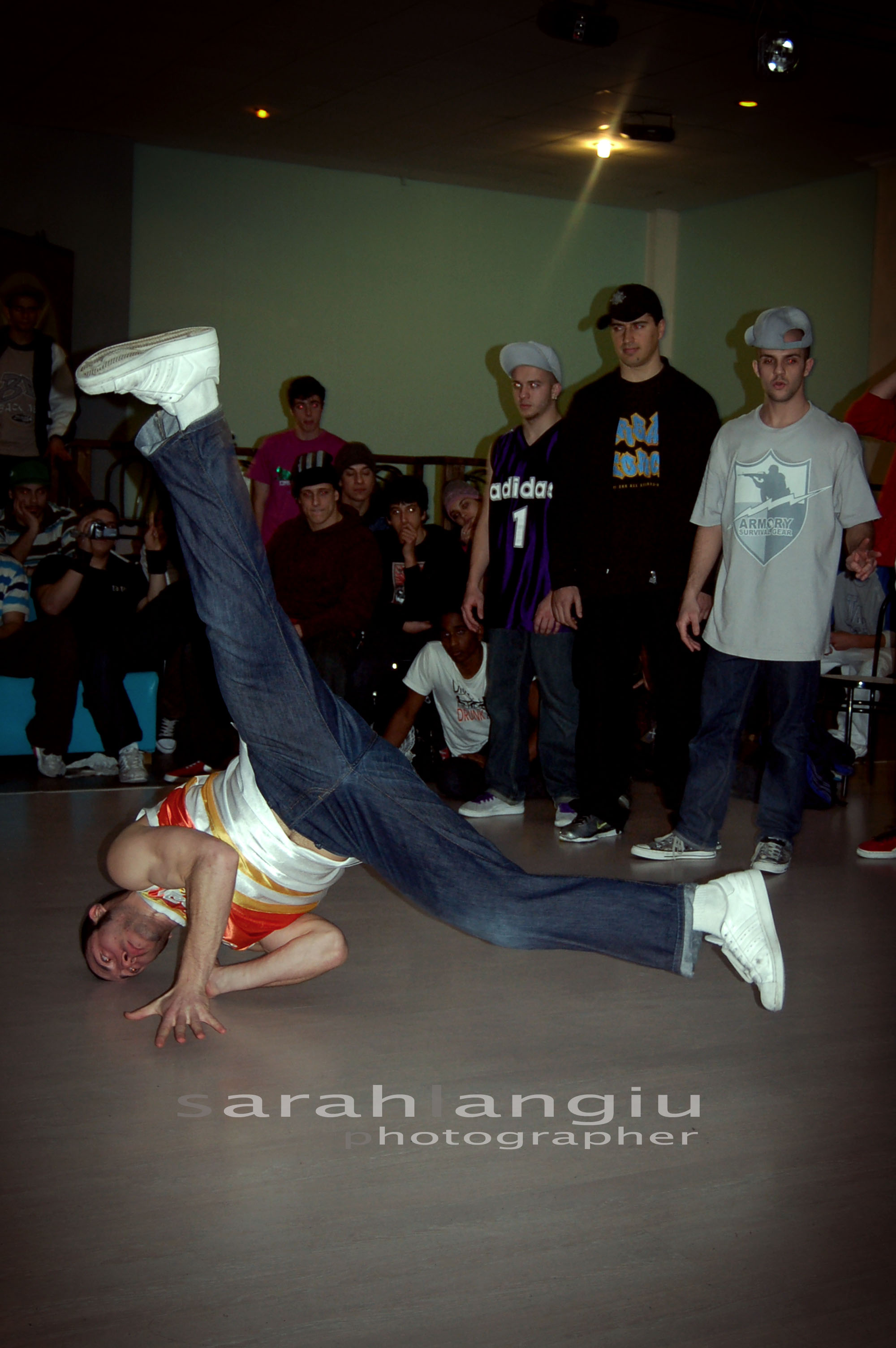 B-boy Nexus doing a powermove (Italy 2008)